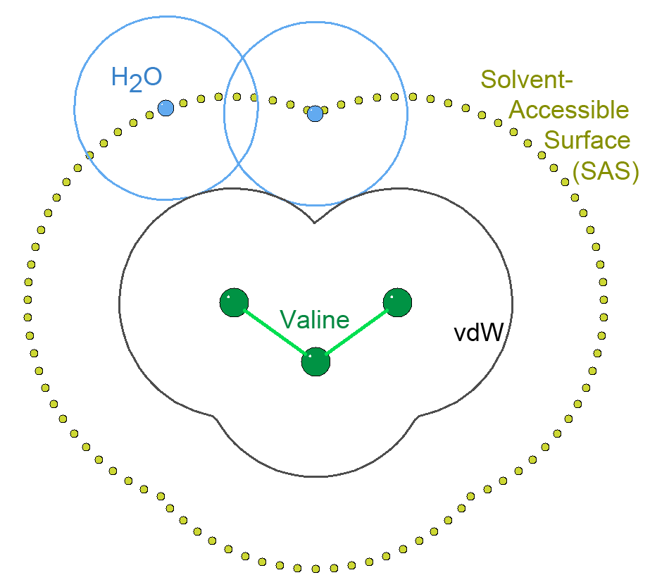 Diagram illustrating the description of Solvent-Accessible Surface (SAS) for macromolecules, as defined by Fred Richards. Prepared in Mage and Photoshop.